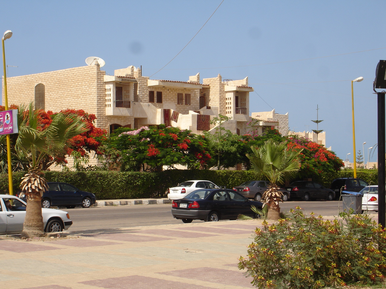 Limestone chalets in Marina, Egypt.